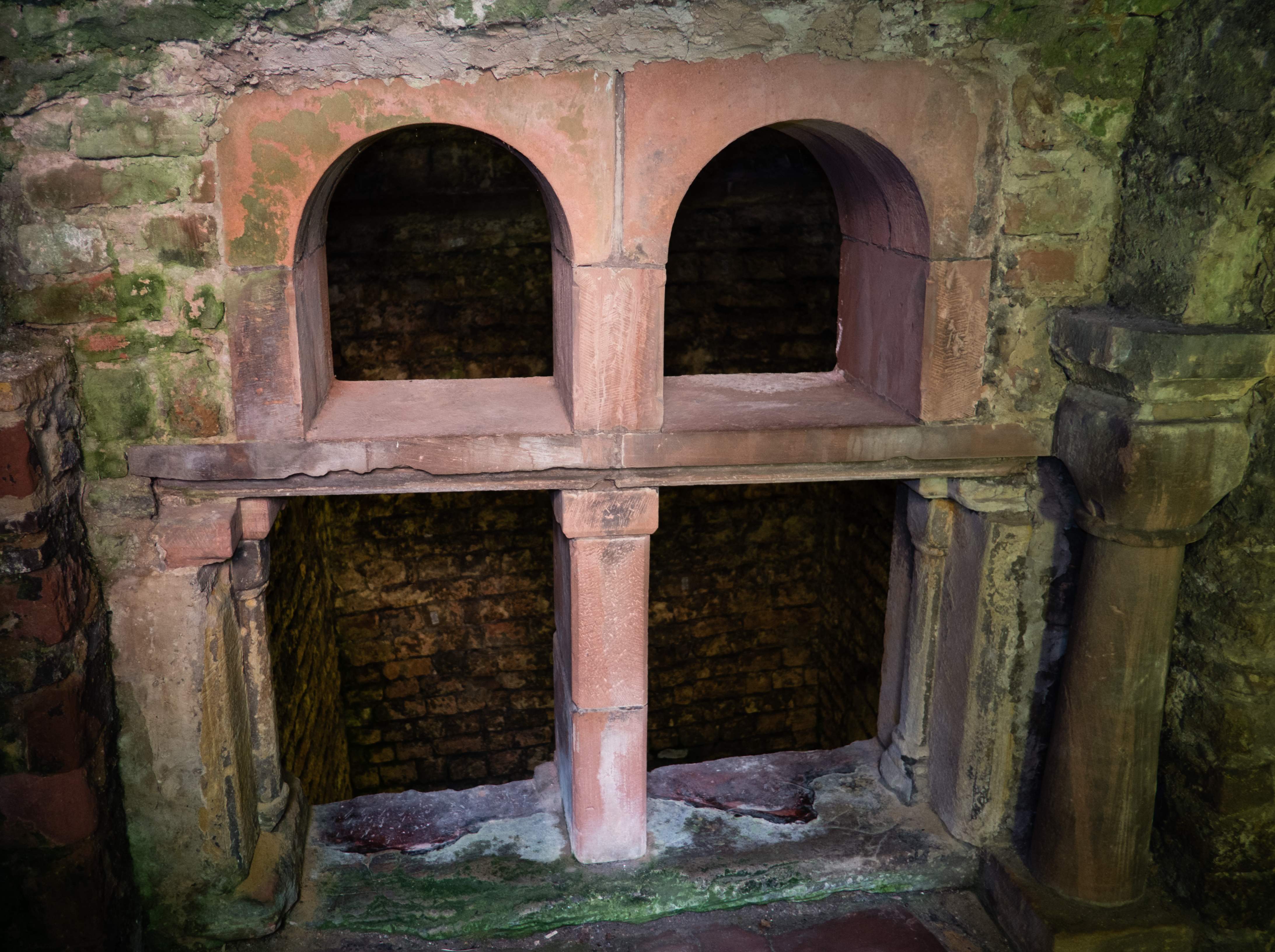 Mikvah of the synagogue Worms, Rhineland-Palatinate, Germany